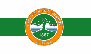 Flag of Port Orange, Florida